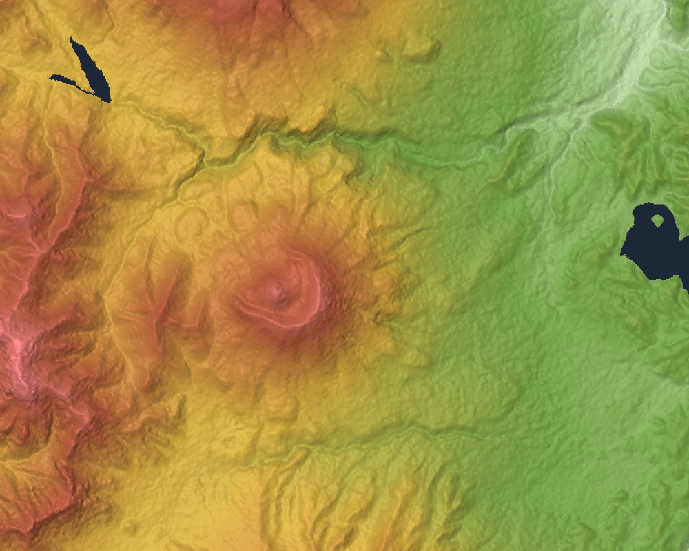 Mount Kurohime is a volcano in Nagano Prefecture, Honshu, Japan.